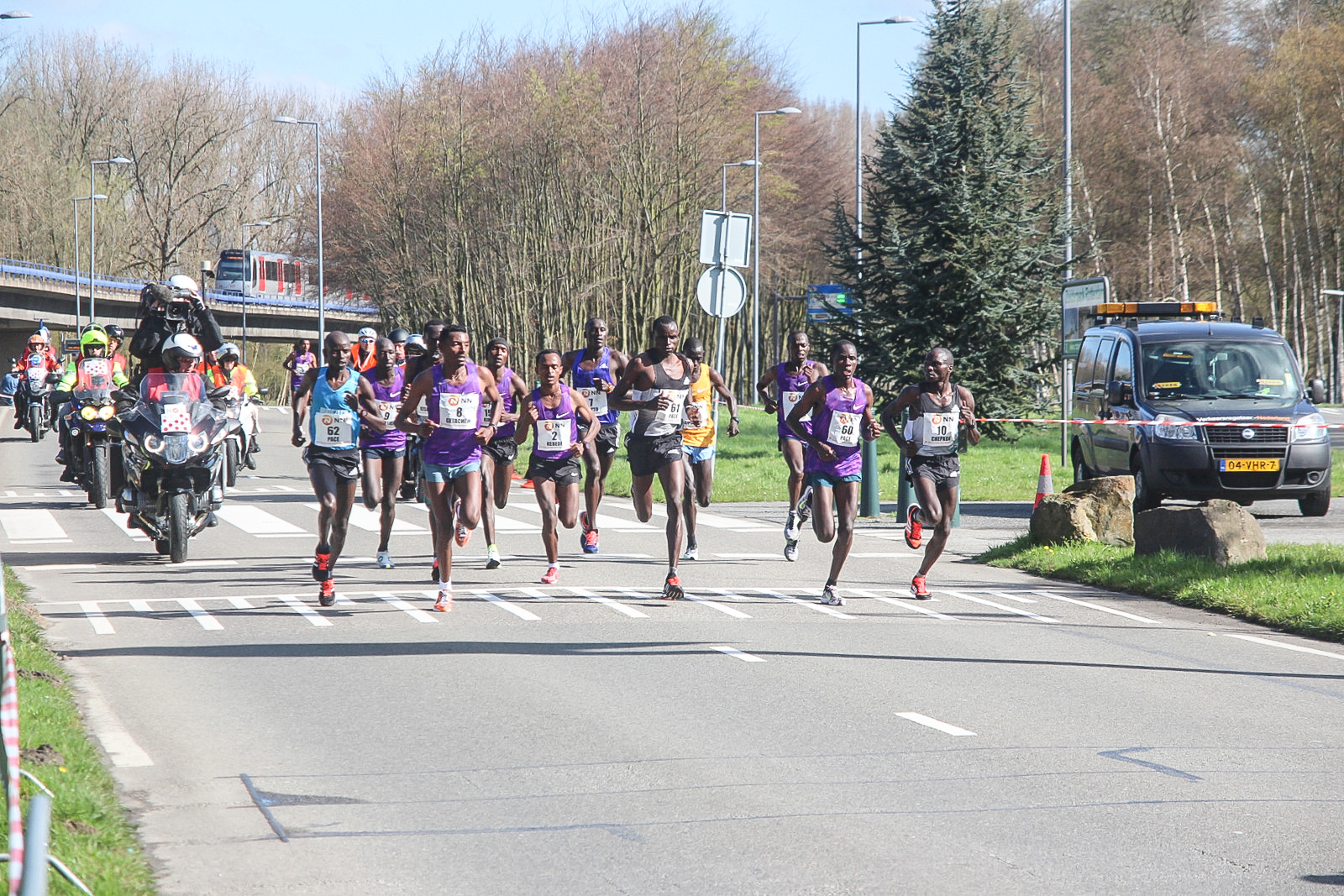 Black running men leaders marathon Rotterdam 2016